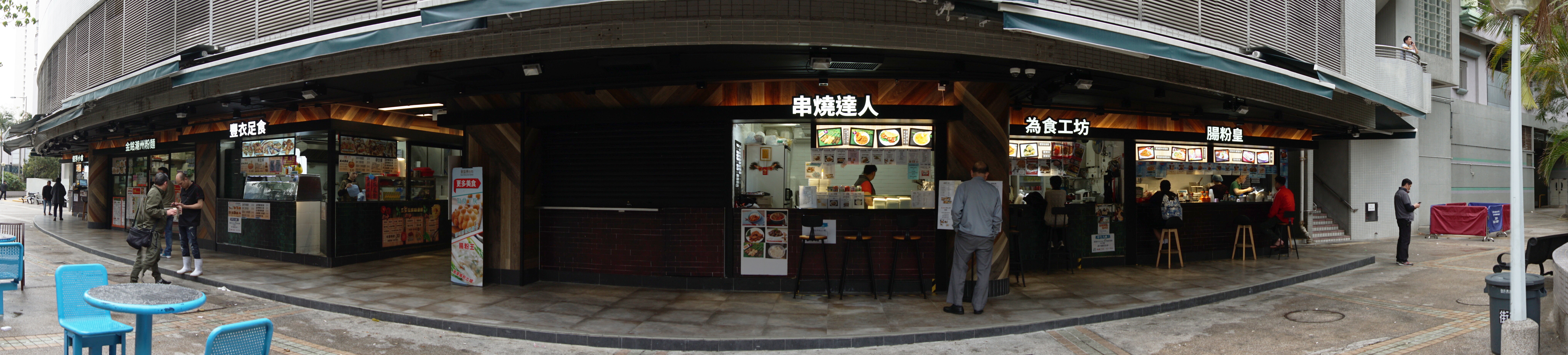 Kwai Shing East Market in Kwai Chung, Hong Kong.